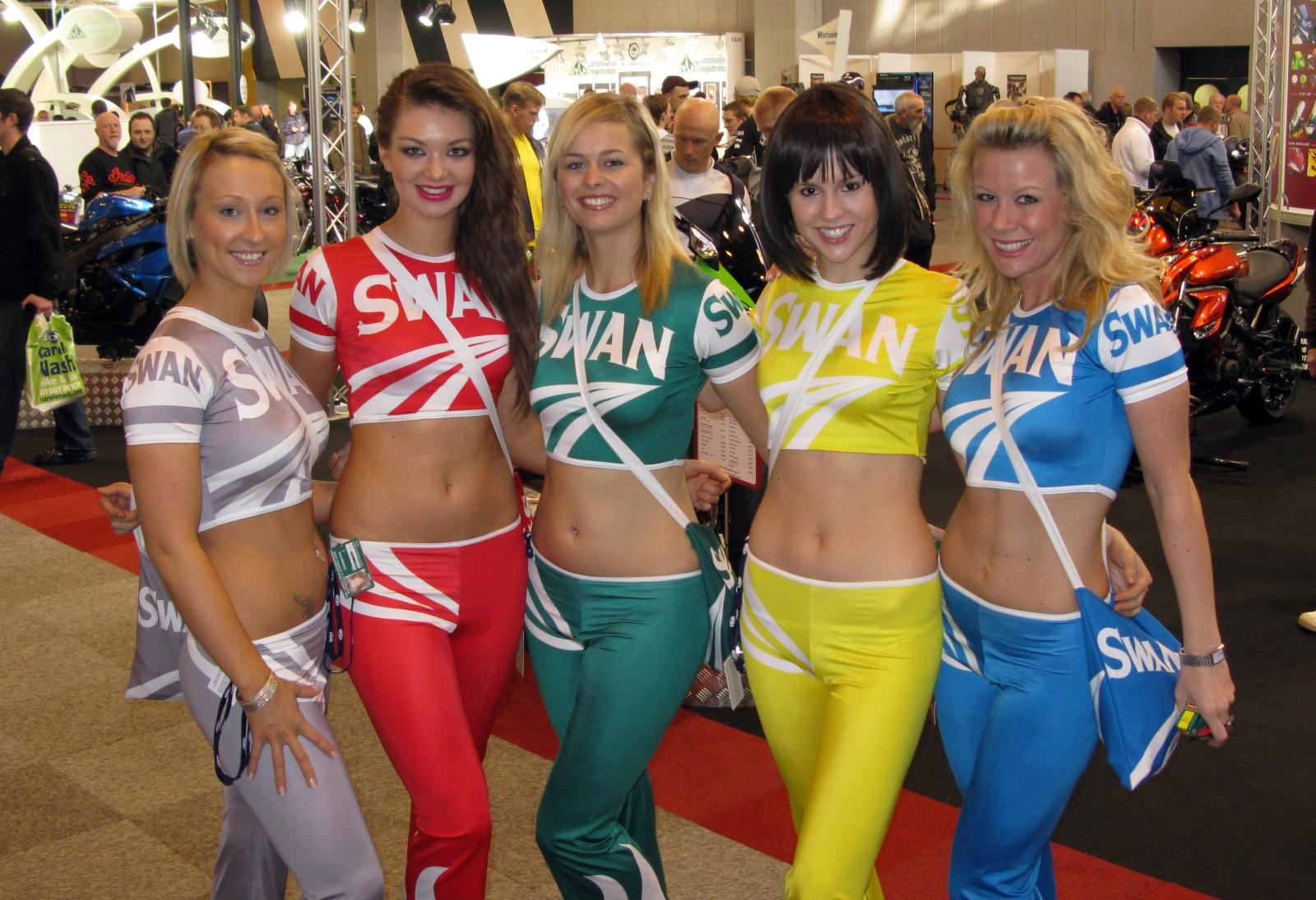 Promotional models at the Carole Nash Bike Show at the Birmingham NEC 2009